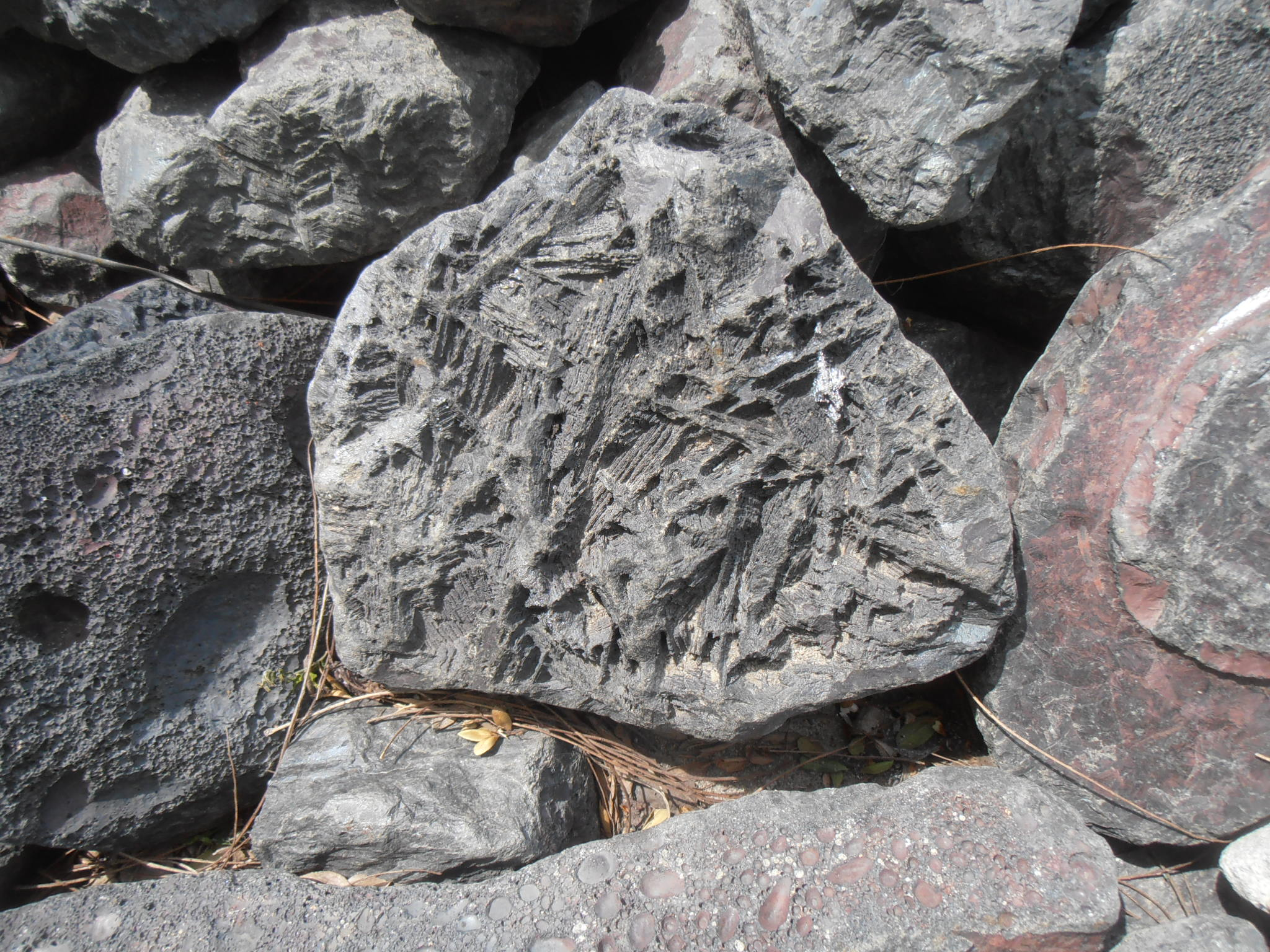 Slag from copper furnace.